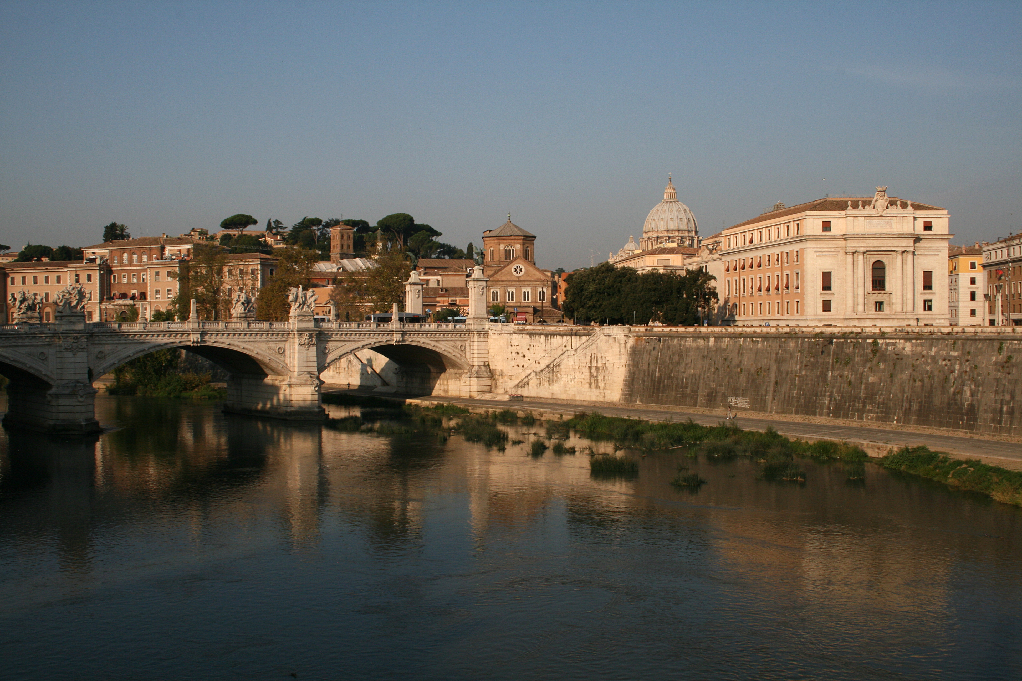 The Vittorio Emanuele II bridge on the Tiber, San Spirito in Sassia and Saint Peter in Romes, Italy